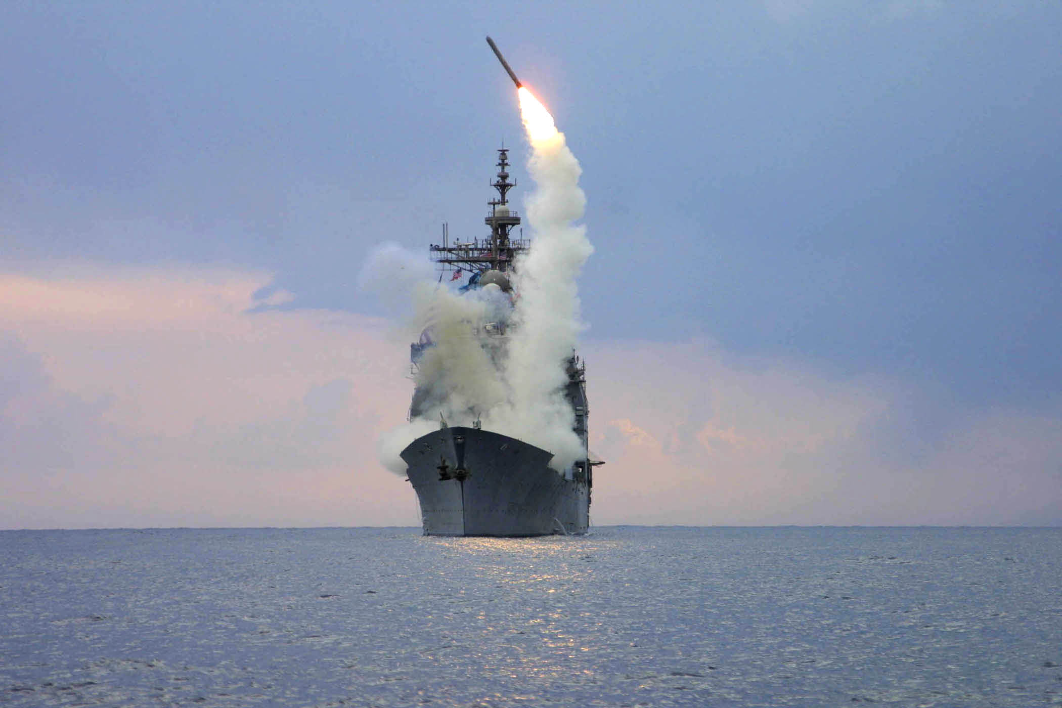 030323-N-6946M-001 At sea aboard USS Cape St. George (CG 71) Mar. 23, 2003 -- A Tomahawk Land Attack Missile (TLAM) is launched from the guided missile cruiser USS Cape St. George. Cape St. George is operating in the eastern Mediterranean Sea conducting missions in support of Operation Iraqi Freedom. Operation Iraqi Freedom is the multi-national coalition effort to liberate the Iraqi people, eliminate Iraq’s weapons of mass destruction, and end the regime of Saddam Hussein. U.S. Navy photo by Intelligence Specialist 1st Class Kenneth Moll. (RELEASED)